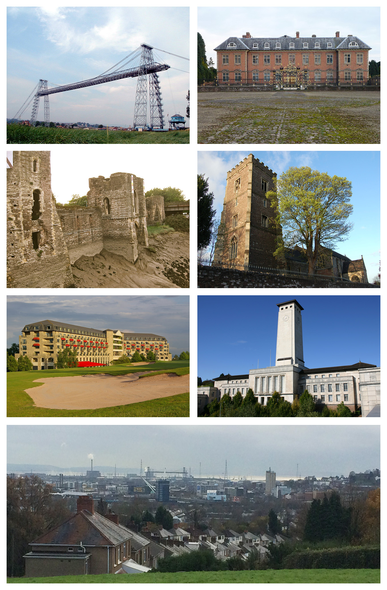 Montage of Newport, Monmouthshire: Newport Transporter Bridge, Tredegar House, Newport Castle, Newport Cathedral, Celtic Manor Resort, Newport Civic Centre and skyline from Brynglas Hill.